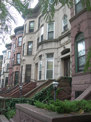 Brownstones of Stuyvesant Heights